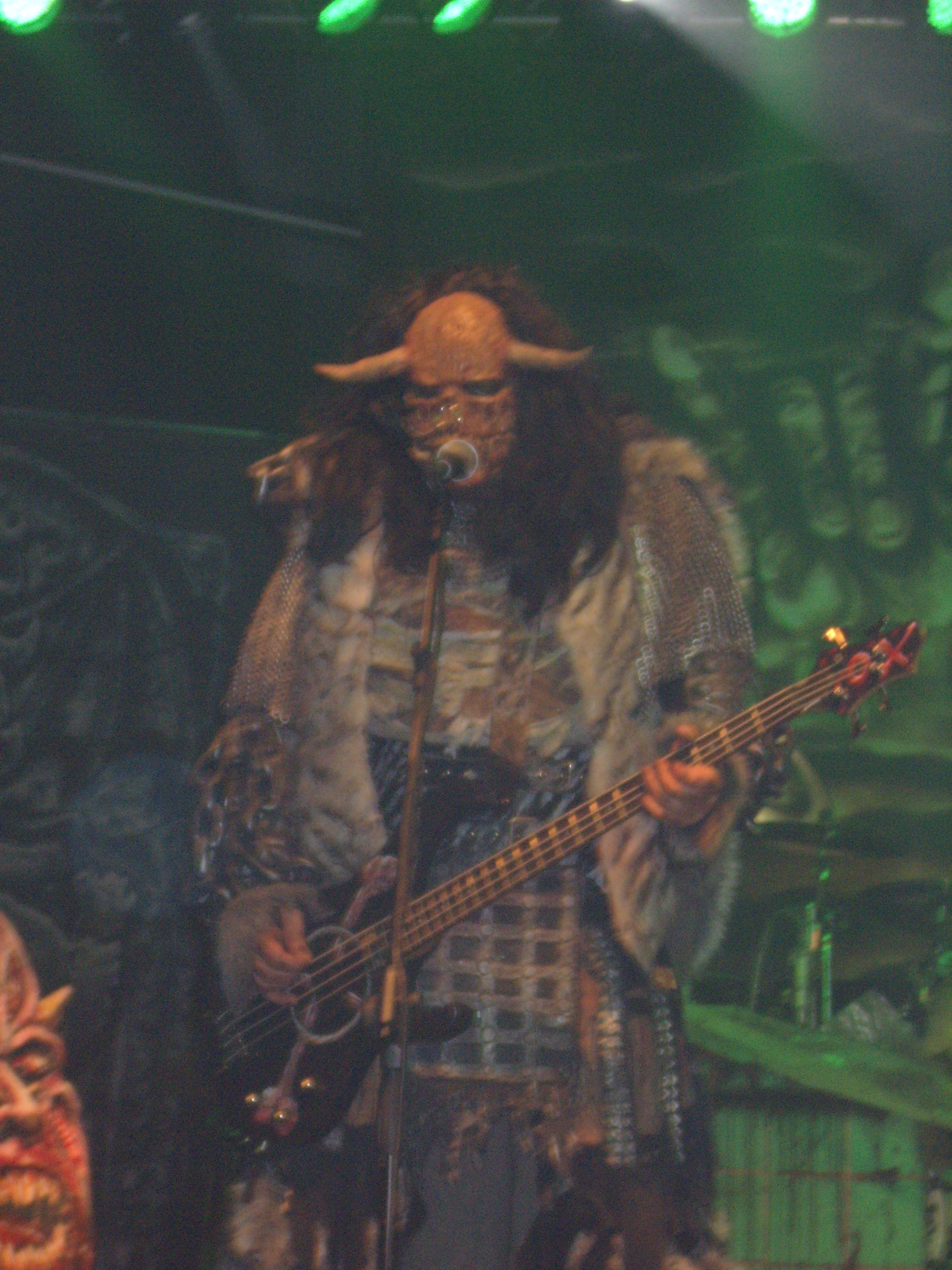 OX live in concert in Milan at Magazzini Generali.